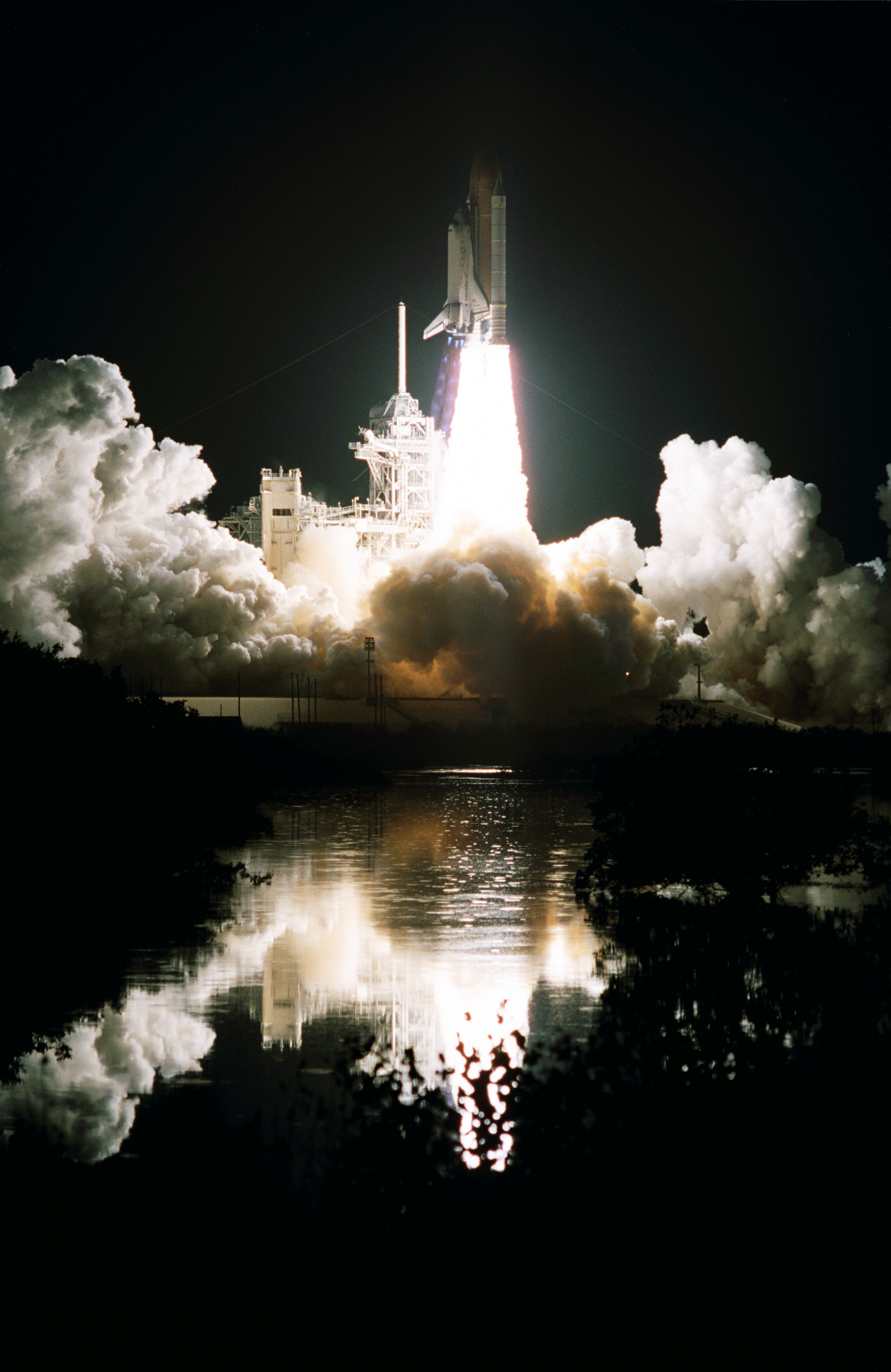 STS-103 (19 December 1999) --- The Space Shuttle Discovery, reflected in nearby the water, lifts off into the clear night sky toward the orbiting Hubble Space Telescope (HST) to begin the 96th mission in the STS program. Liftoff occurred at 7:50 p.m. (EST) on December 19, 1999, from Launch Pad 39B. Onboard were Curtis L. Brown, Jr.; Scott J. Kelly; Steven L. Smith; C. Michael Foale; John M. Grunsfeld; Claude Nicollier; and Jean-Francois Clervoy. Switzerland's Nicollier and France's Clervoy represent the European Space Agency (ESA).